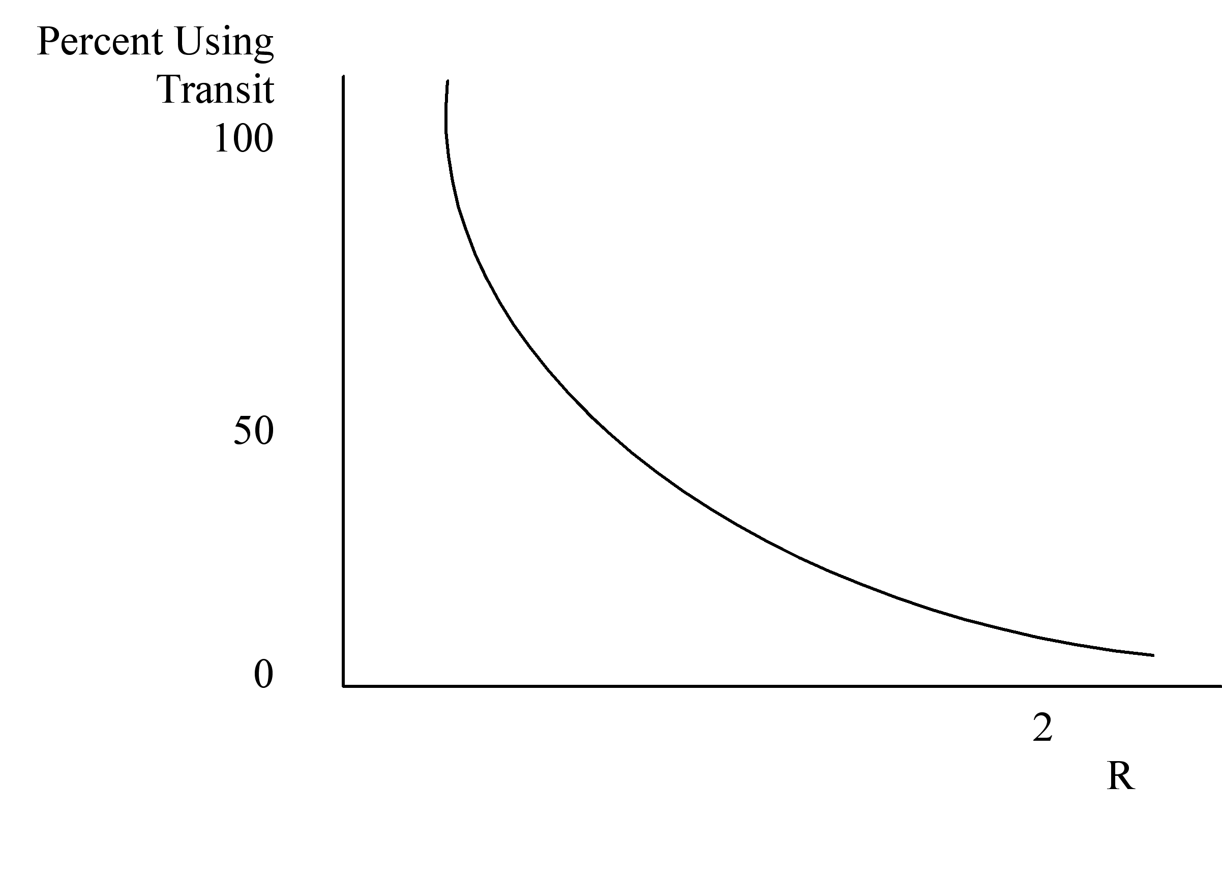 Mode Choice Diversion Curve, Drawn by Creator